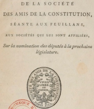 An announcement of the Feuillants Club to its affiliated chapters on the elections